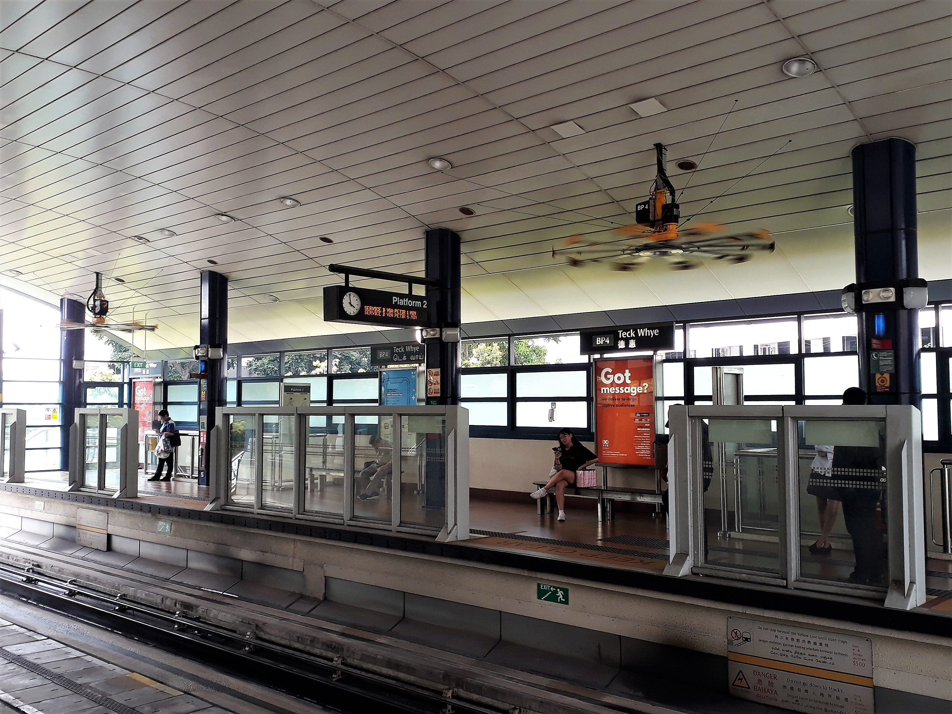 Platform 2 of Teck Whye station